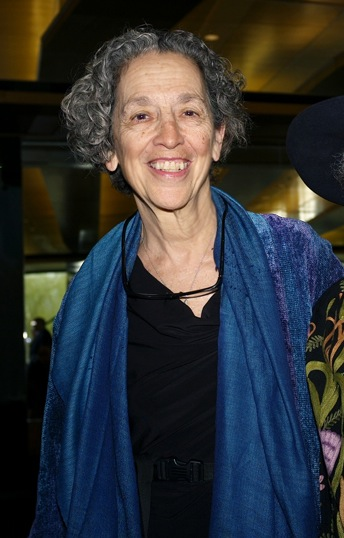 Former Manhattan Borough President Ruth Messinger.